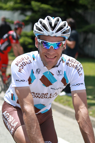 Jean Christophe Peraud